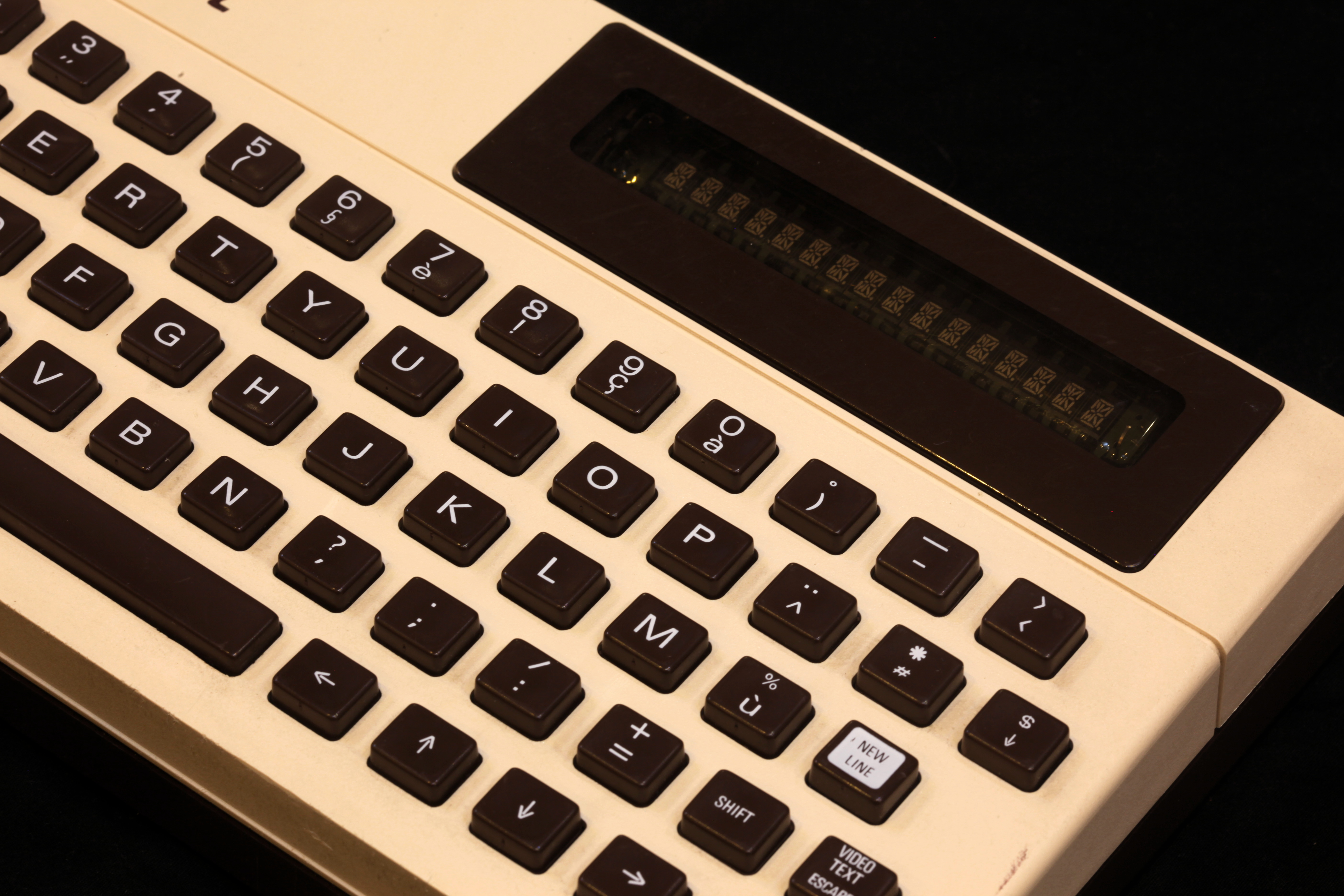 Grundy NewBrain computer. On display at the Musée Bolo, EPFL, Lausanne.